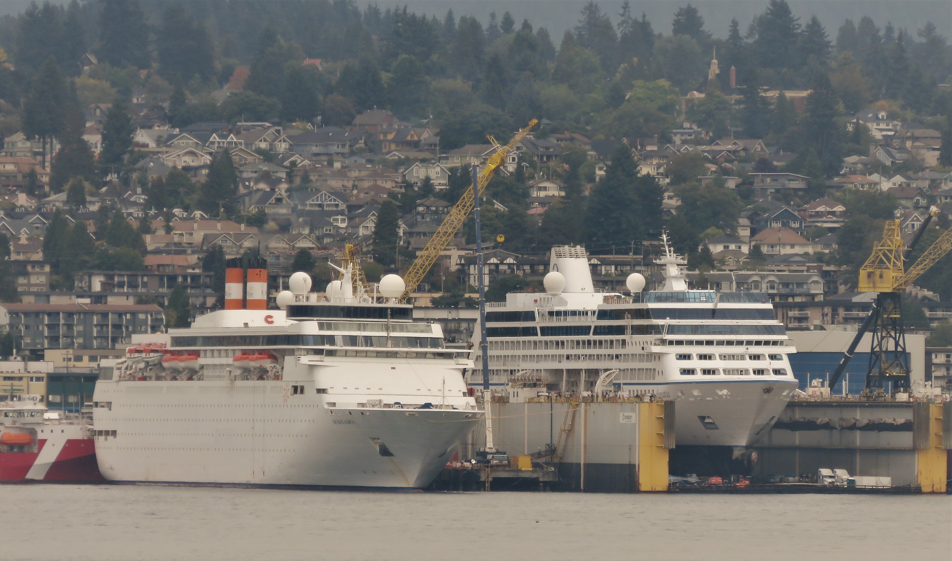 The cruise ship Grand Classica (IMO 8716502, Bahamas Paradise Cruise Line) tied alongside floating drydock Seaspan Careen, during the refurbishment of the cruise ship Regatta (IMO 9156474, Oceania Cruises) at Seaspan shipyard (Vancouver, Canada), on September 7, 2019.